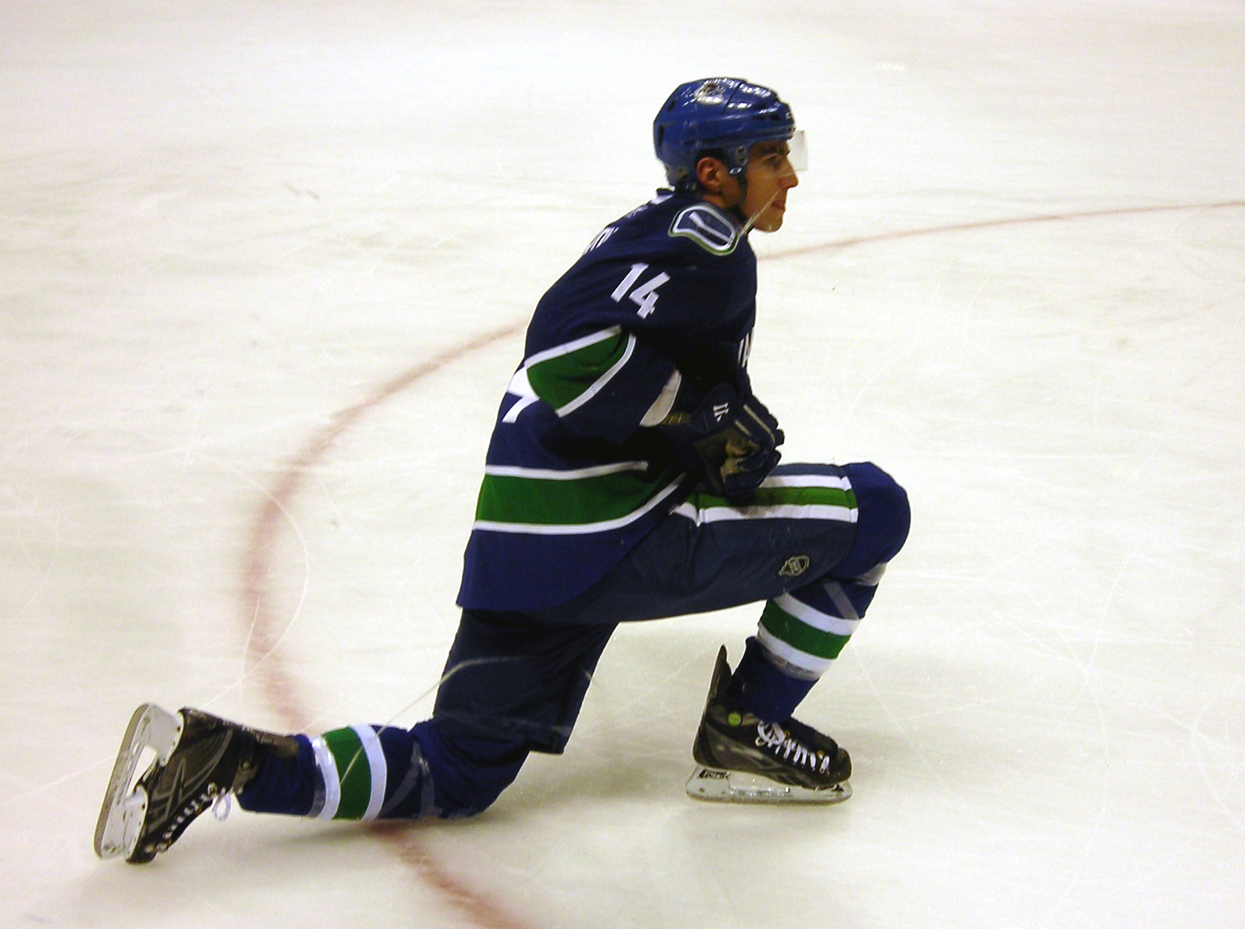 Vancouver Canucks forward Alex Burrows warming up prior to a game against the Colorado Avalanche on March 15, 2009.